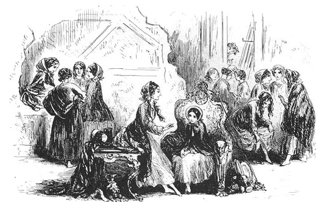 Illustration for Little Dorrit by Phiz